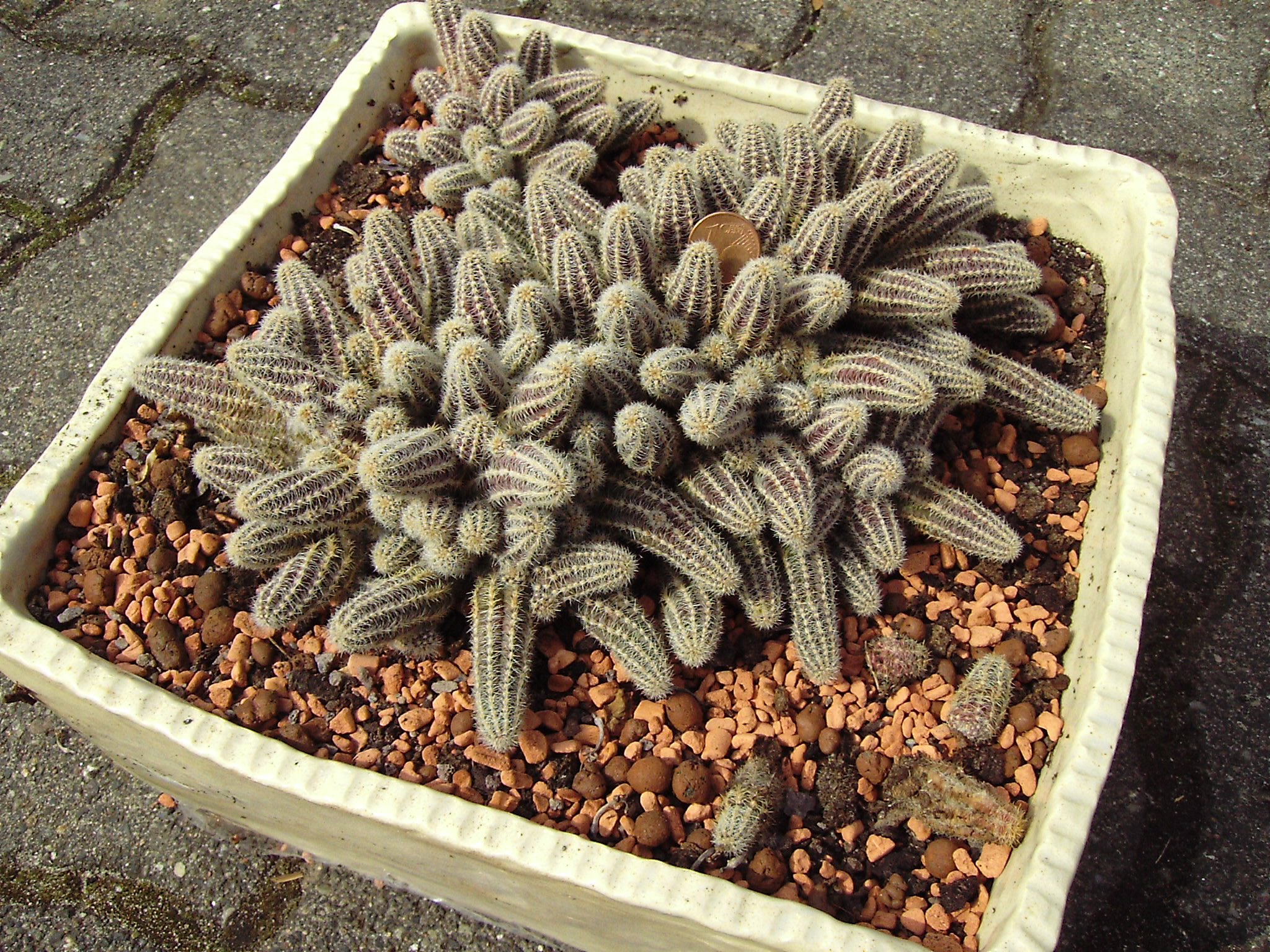 Echinopsis chamaecereus after hibernation